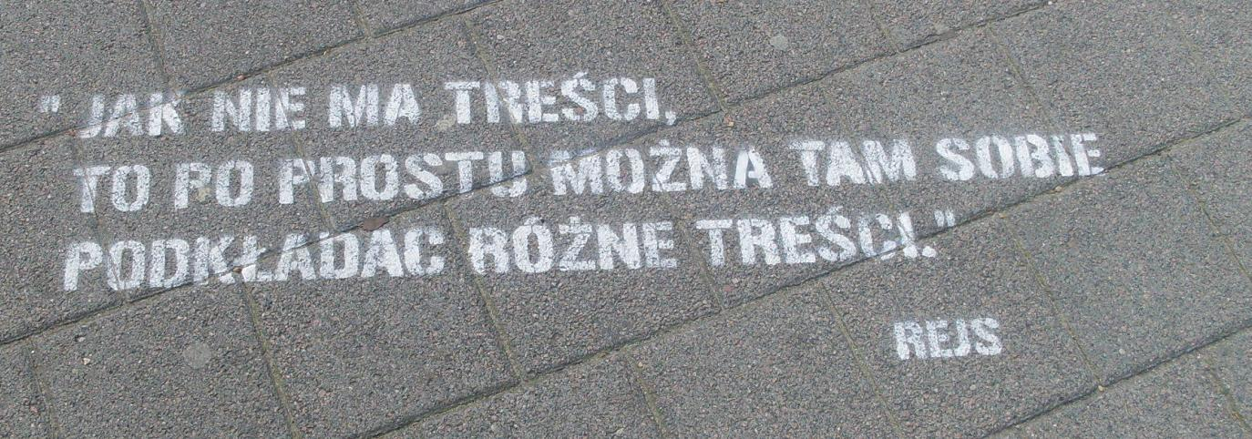 Quotation from polish film "Cruise". Painting at pavement 10 Lutego Street in Gdynia. Promote Polish Film Festival in Gdynia.